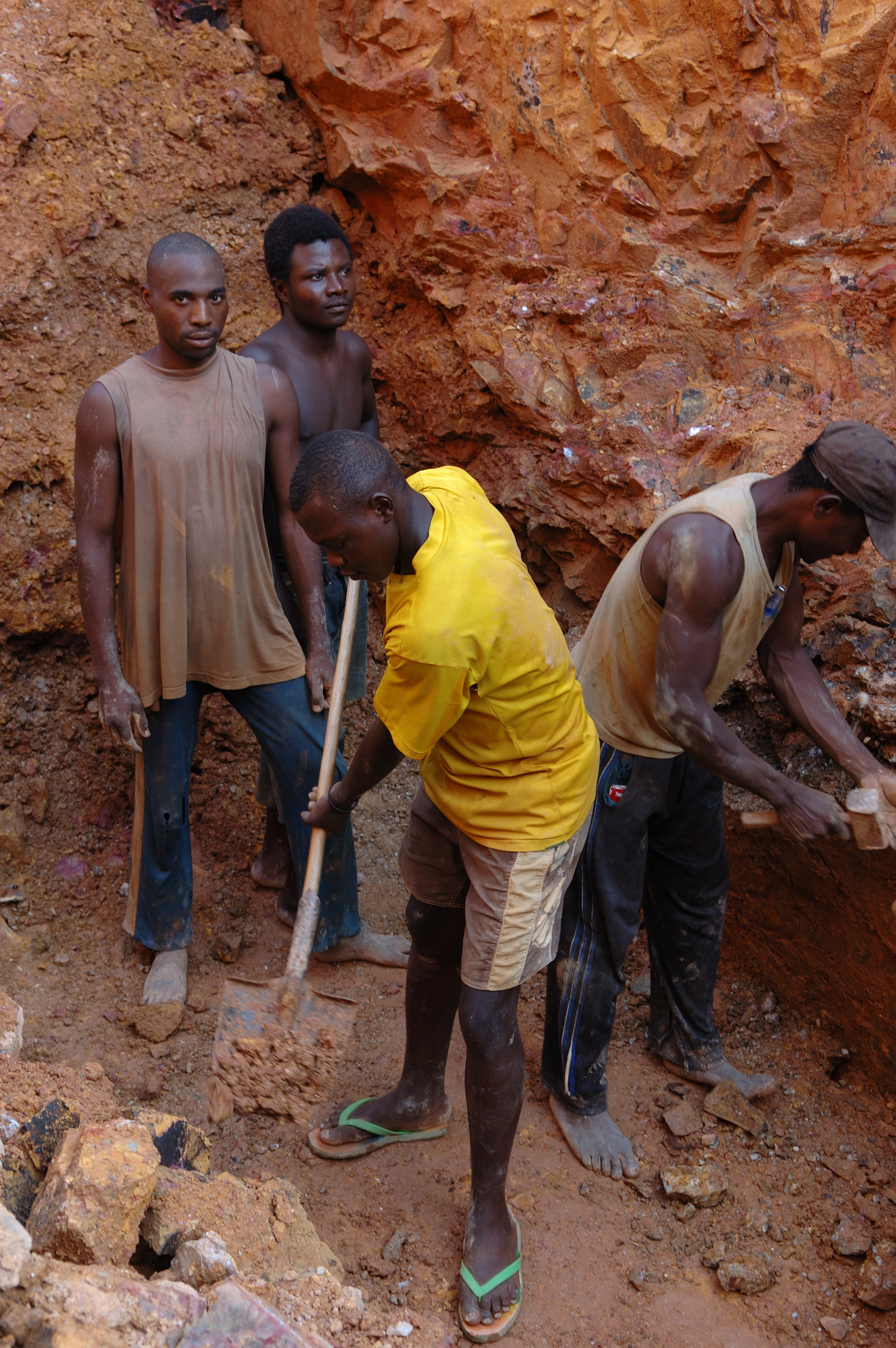 Wolframite and Casserite mining in the Democratic Republic of the Congo.